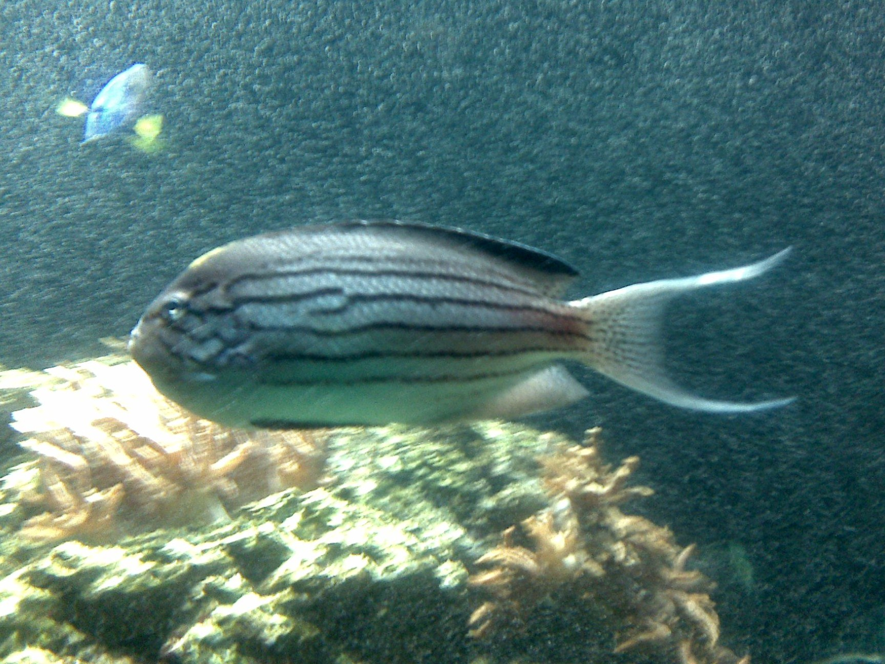 Genicanthus lamarck. London Zoo.